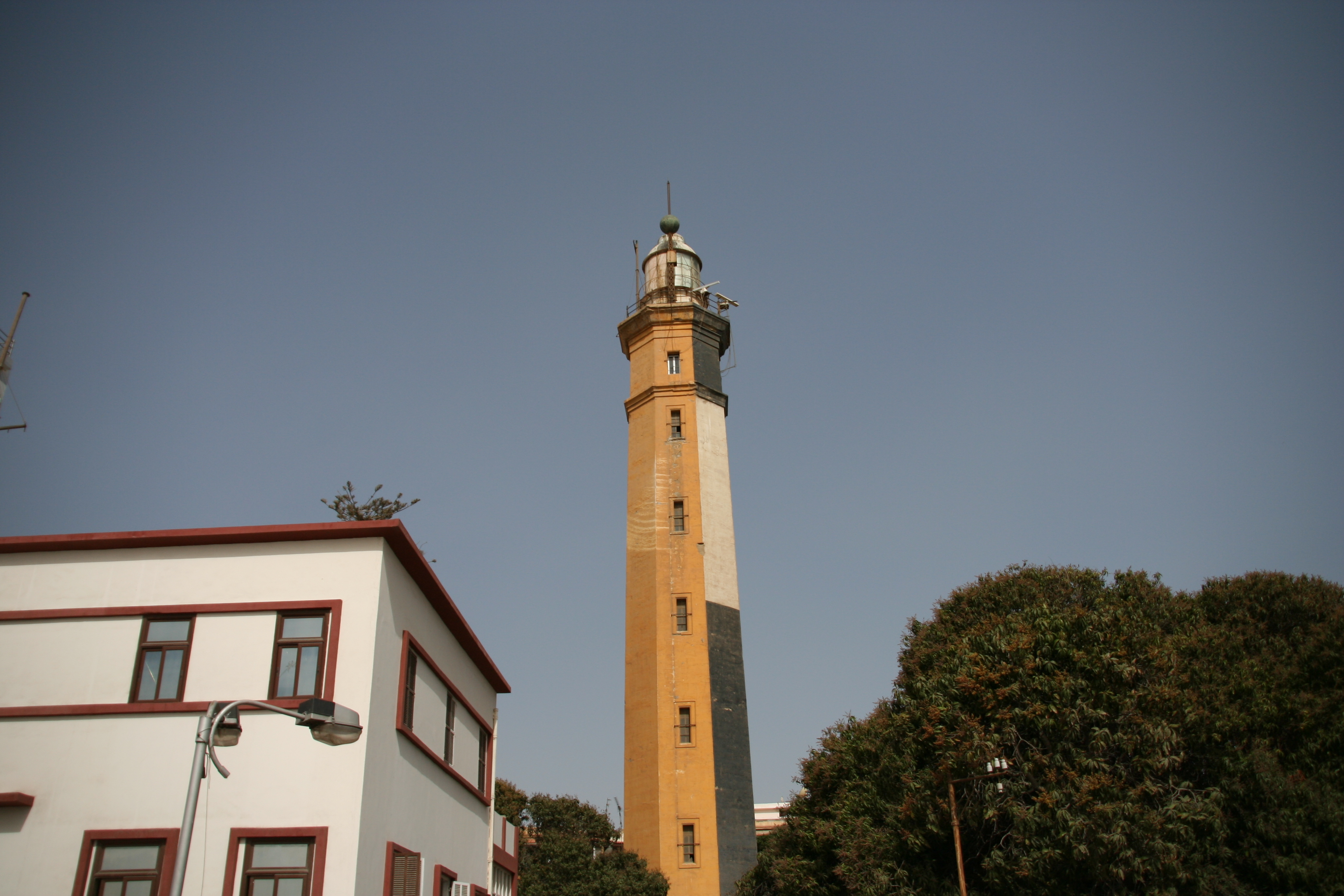 port said lighthouse egypt Taken from Michael Tyler - Travel Blog: Waypoints accurate to 100ft.